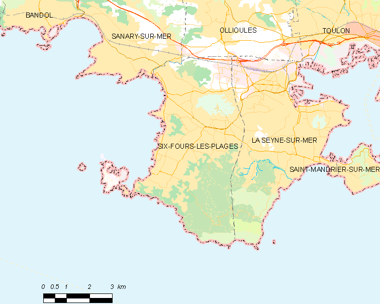 Map of French municipality Six-Fours-les-Plages